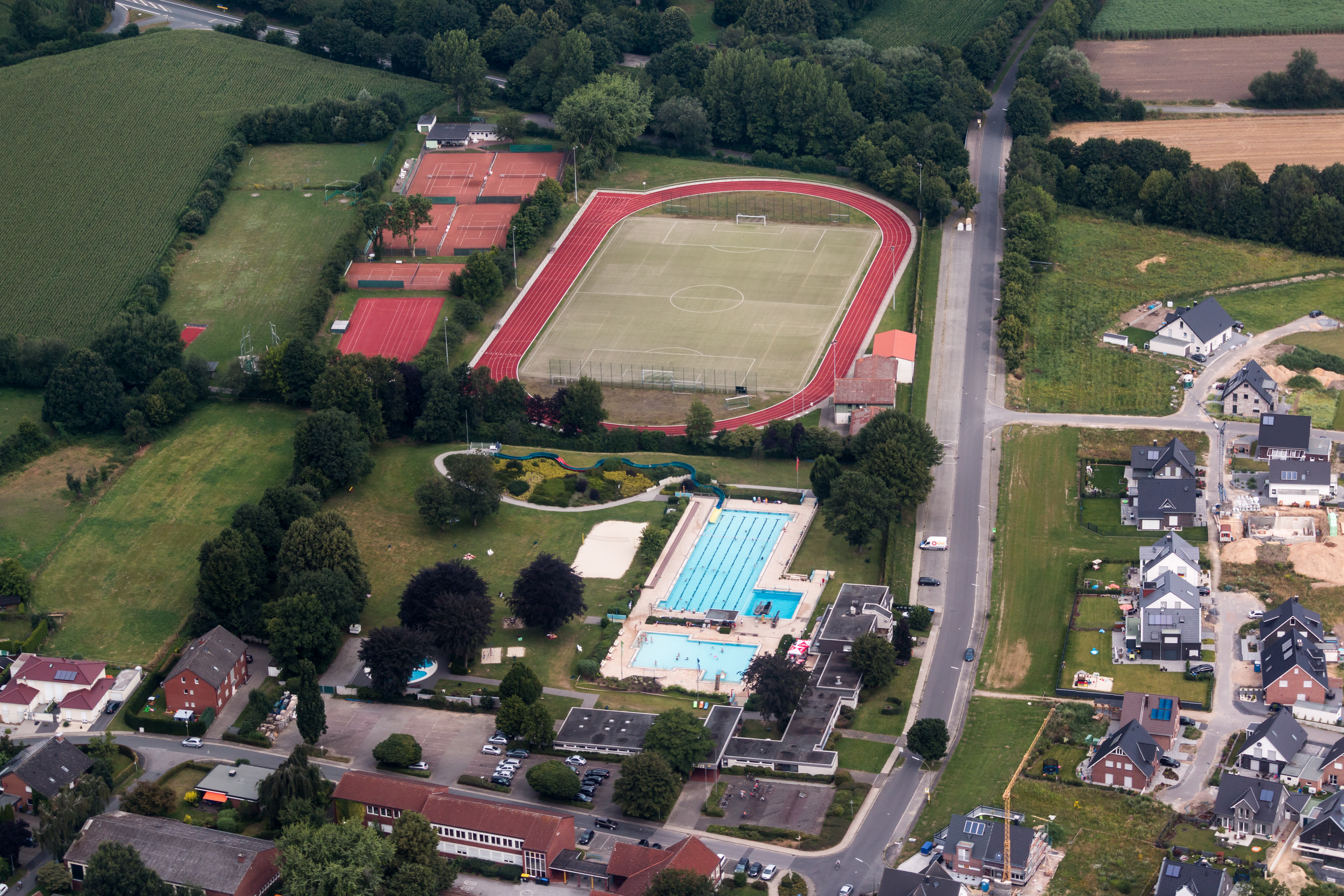 Sythen, Haltern am See, North Rhine-Westphalia, Germany